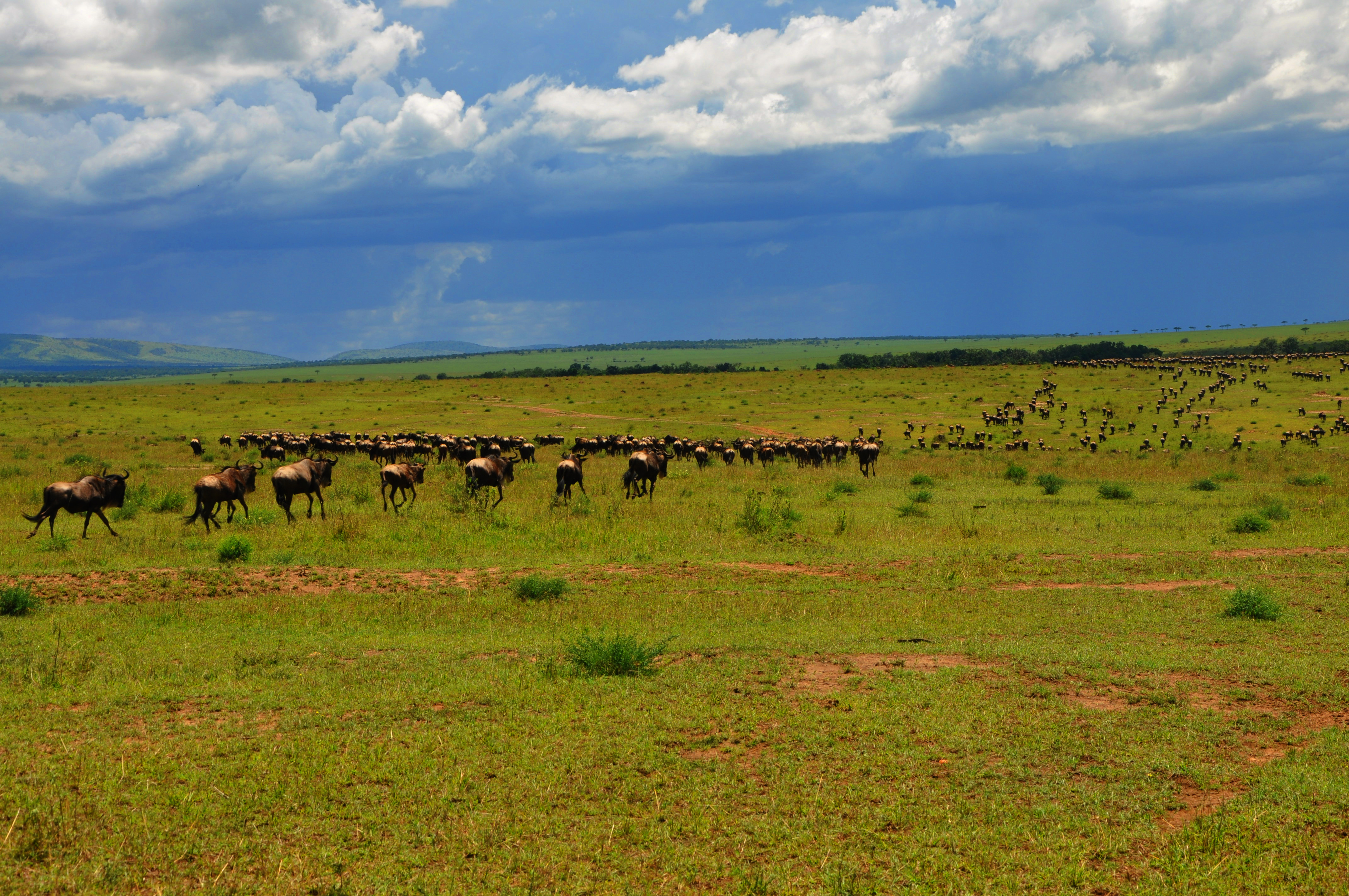 A lucky scene in November because normally the migration is over in October